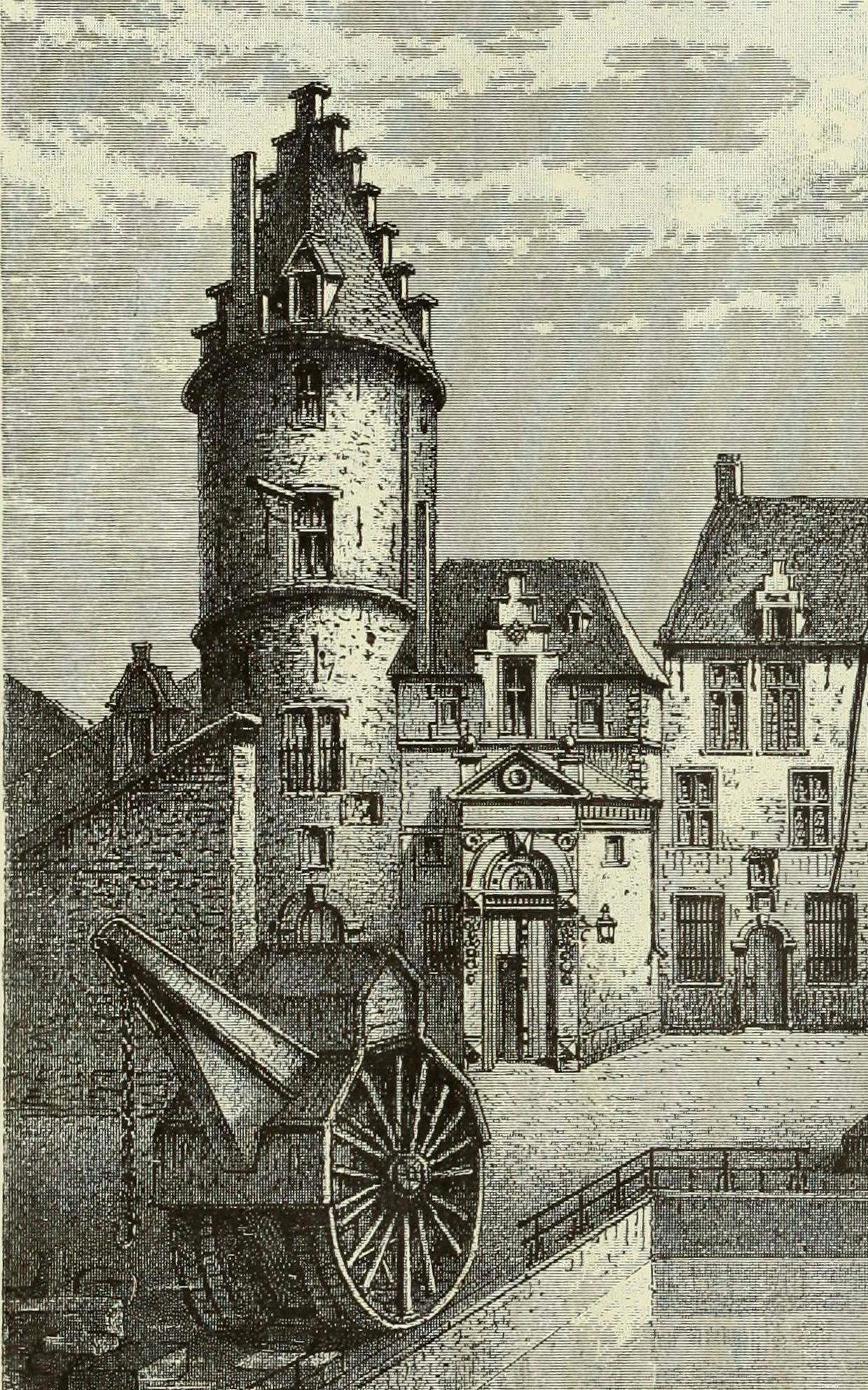 Title: Bruxelles à travers les âges Year: 1884 (1880s) Authors: Hymans, Louis Salomon, 1829-1884 Hymans, Henri, 1836-1912 Hymans, Paul, 1865-1941 Subjects: Publisher: Bruxelles : Bruylant-Christophe Text Appearing Before Image: Vue de la place des Barricades et de la statue de Vésale.Daprès la lithographie de Canelle. « pendant lequel je me concertai avec plusieurs astronomes français, que jeprésentai un rapport détaillé sur lutilité de la construction dun observatoire àBruxelles. Ce projet fut présenté au commencement de 1824; mais ce ne fut queplus de deux ans après que parut, en juin 1826, larrêté royal qui ordonnait laformation de cet établissement. Je fus en même temps chargé de mentendre avecM. Walter, inspecteur général de linstruction publique, pour faire un projet à cetégard et un relevé des frais que nous devions faire parvenir à M. Wellens, alorsbourgmestre de la ville. La régence de Bruxelles, de son côté, nous exprima la (1) Almanach séculaire de lObservatoire royal de Bruxelles, 1854. Notes pour servir à lhistoire de lastronomie en Belgique, eten particulier à celle de lObservatoire royal de Bruxelles. Text Appearing After Image: LE QUAI AU SEL A BRUXELLES EN 1732. — Vue p:Dessin de E. Puttaert, daprès loriginal fais